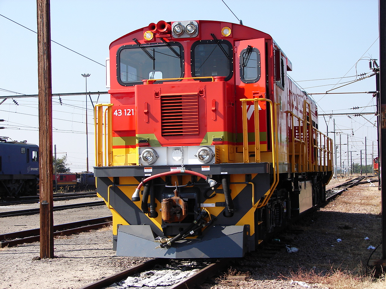 South African Class 43-000 43-121Type: GE C30ACiLocation: Pyramid South, Pretoria, Gauteng